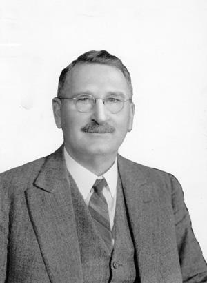 This image shows a photograph of John Collings Willcock (1879–1956), former Premier of Western Australia. The original photograph was taken and published in 1940. A digital image of the photograph was created by the State Library of Western Australia and is available from the Library Information Service of Western Australia (LISWA) website here. The LISWA image includes an assertion of copyright 2001, but this assertion is incorrect: the image is in the public domain under both Australian and US copyright law. This digital image is a cropped version of the LISWA digital image that eliminates the incorrect copyright notice.